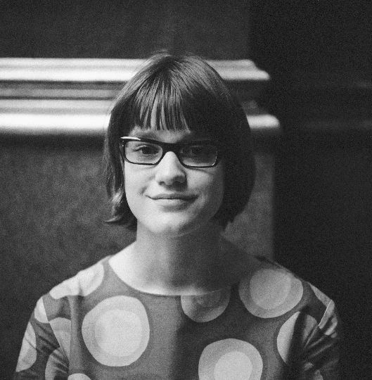 Photograph of the Finnish writer Veronica Pimenoff (1949–).